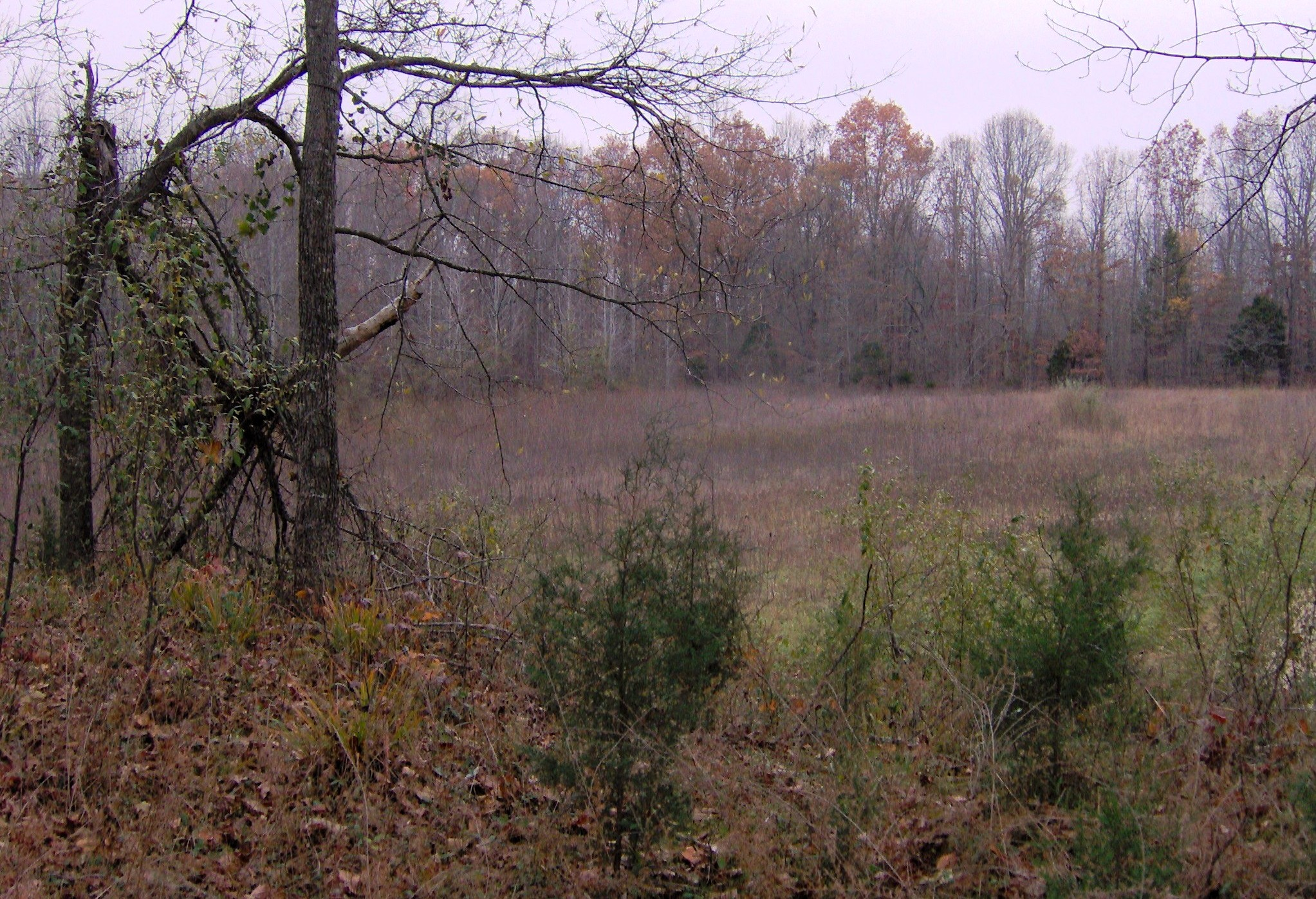 The view from the top of Mound 29 into the "sacred" area enclosed by the earthen geometric walls (commonly called the Eastern Citadel) at Pinson Mounds State Archaeological Park in Madison County, Tennessee, located in the Southeastern United States. The enclosed ground slopes downward toward the left (west), which archaeologist Mark Norton suggested allowed a water reservoir to form.